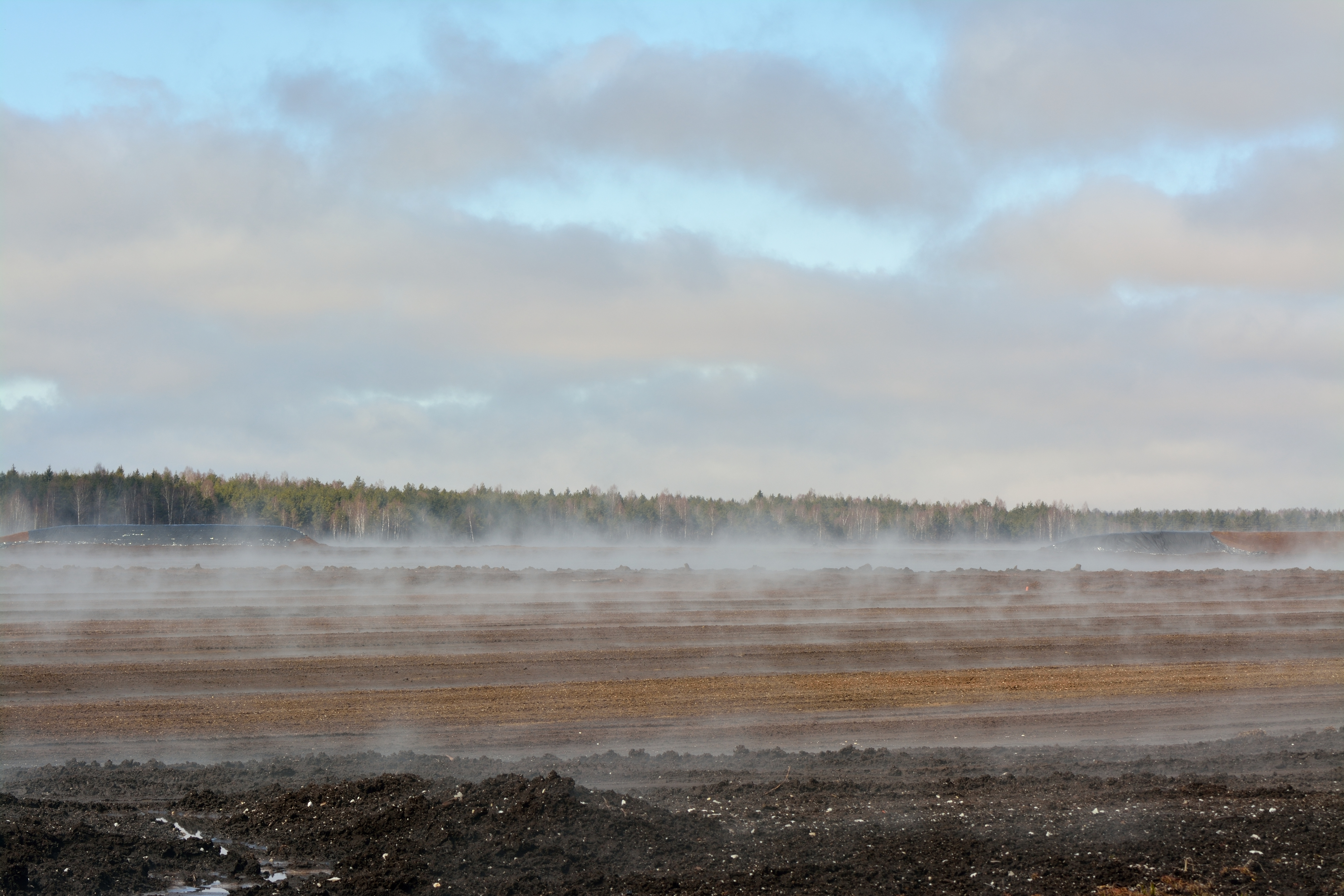 Fog in Ohtu bog (peat production area)